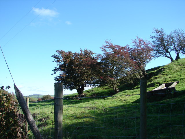 Caer Argoed Caer Argoed is an ancient hill fort beside the lane between Lledrod and Argoed. Unfortunately, it is on private land with no public footpaths so a closer view is not possible.